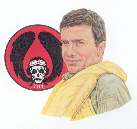 Giora Even is Israel's leading ace with 17 victories